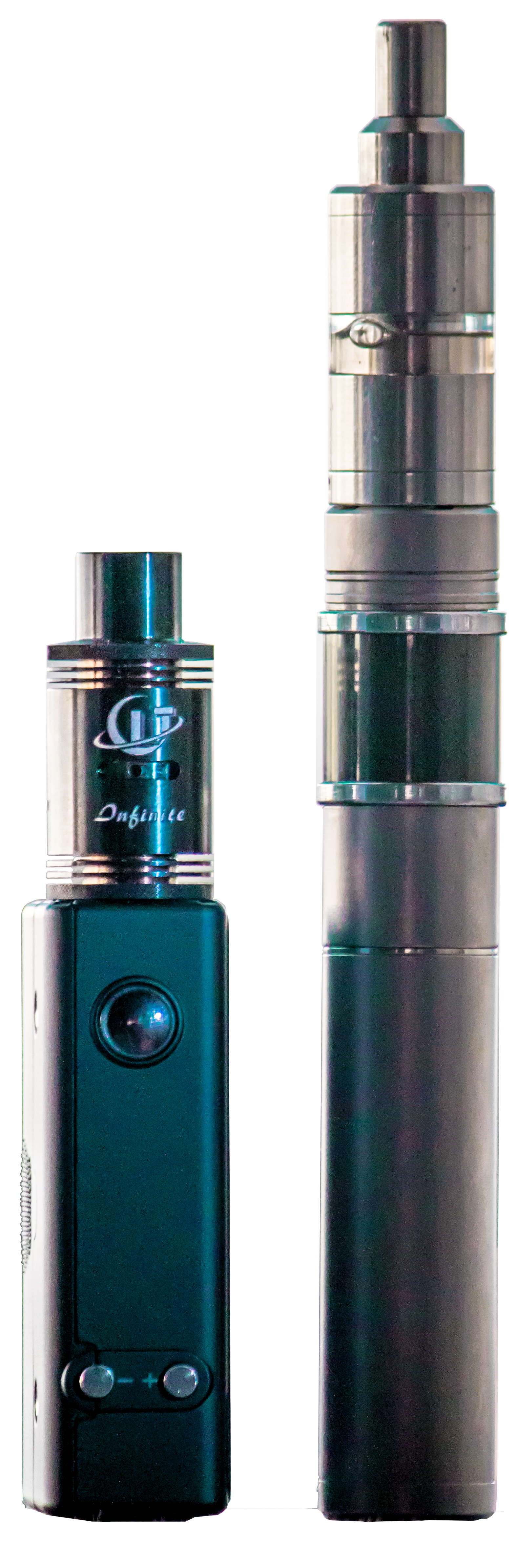 Based off by TheNorlo The rDNA (on the left) is a variable power or wattage electronic cigarette or PV that contains the DNA 40 electronic chipset from Evolv LLC. A CLT V2 plus rebuildable dripping atomizer is attached to the connection of rDNA. The Segelie 20 (on the right) is a PV that houses the SX chip manufactured in china. A kayfun Lite is screwed in the 510 connection of the Segelie 20.